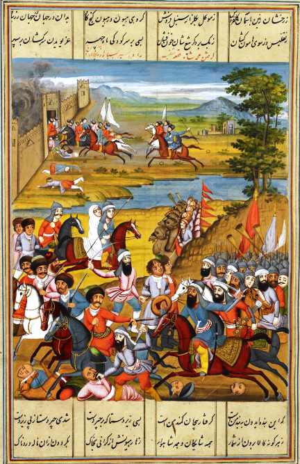 Capture of Tiflis by Agha Muhammad Shah. A Qajar-era miniature from Fath 'Ali Khan Saba's Shahinshah Nama. The British Library.